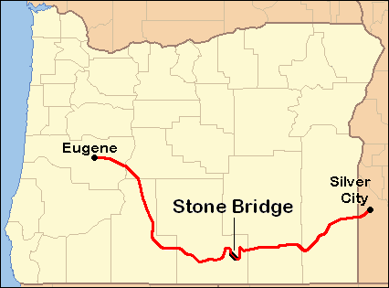 Map shows the location of the Stone Bridge on the Oregon Central Military Wagon Road in Lake County, Oregon.